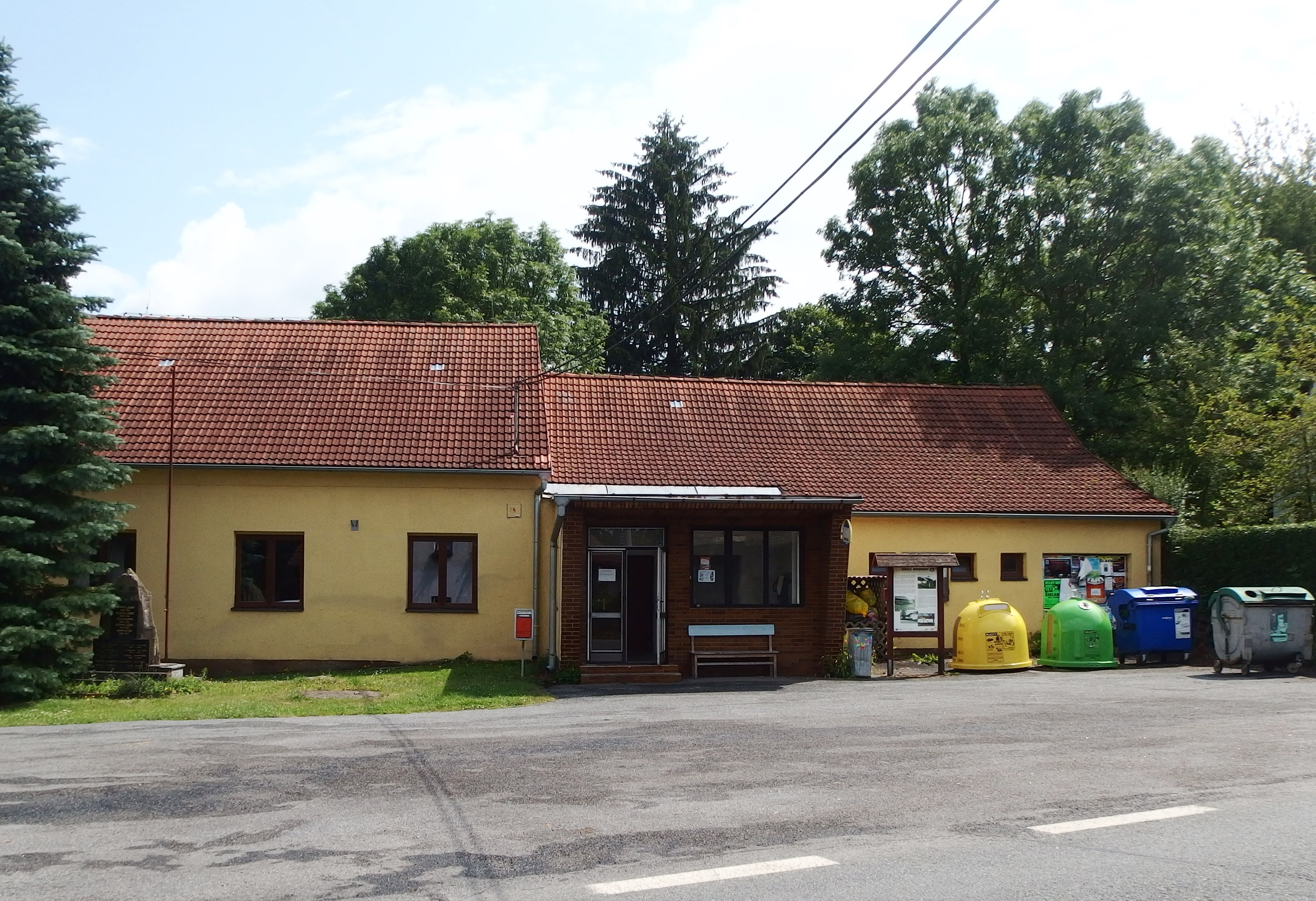 Rodkov, Žďár nad Sázavou District, Czechia. Аҧсшәа: Rodkov, Kreis Žďár nad Sázavou, Tschechien.